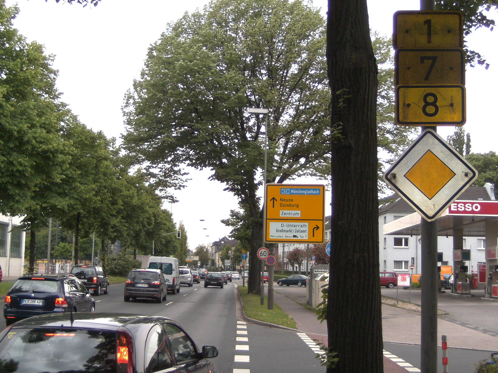 The streets Grashofstraße / Heinrich-Erhardt-Straße / Johannstraße estating the common route of the federal highways 1, 7, 8. Northward view in direction Theodor Heuss Bridge